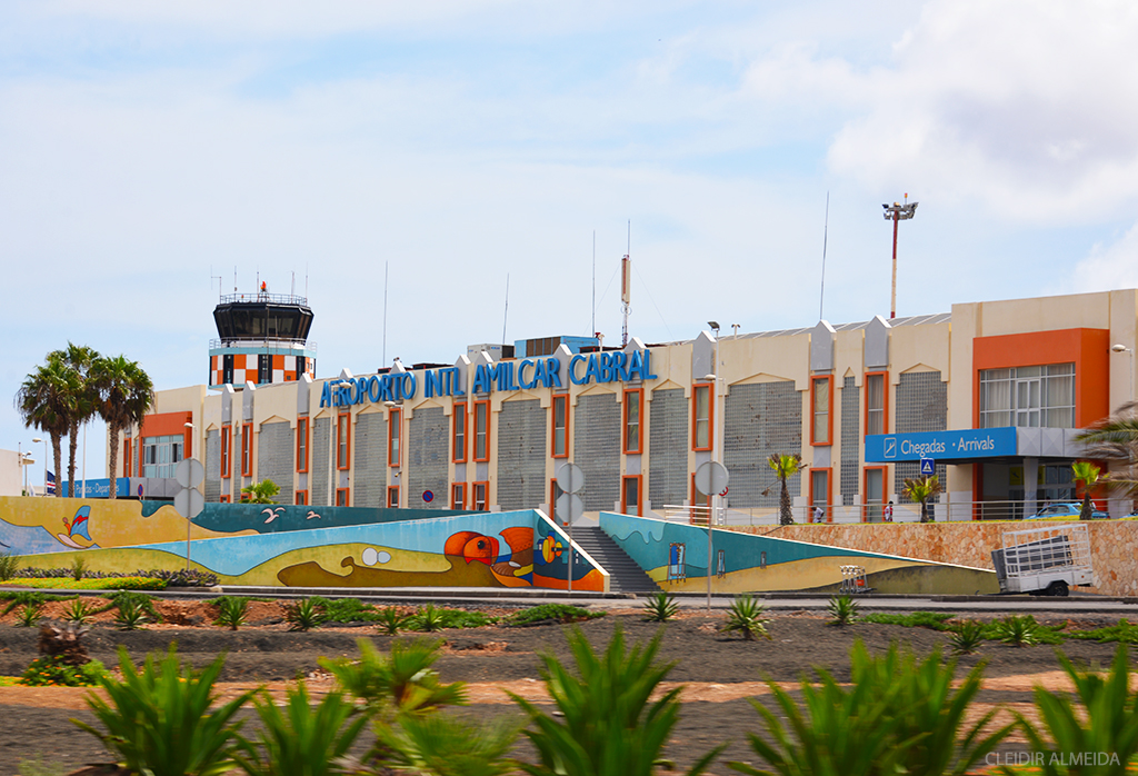 Sal Airport pic